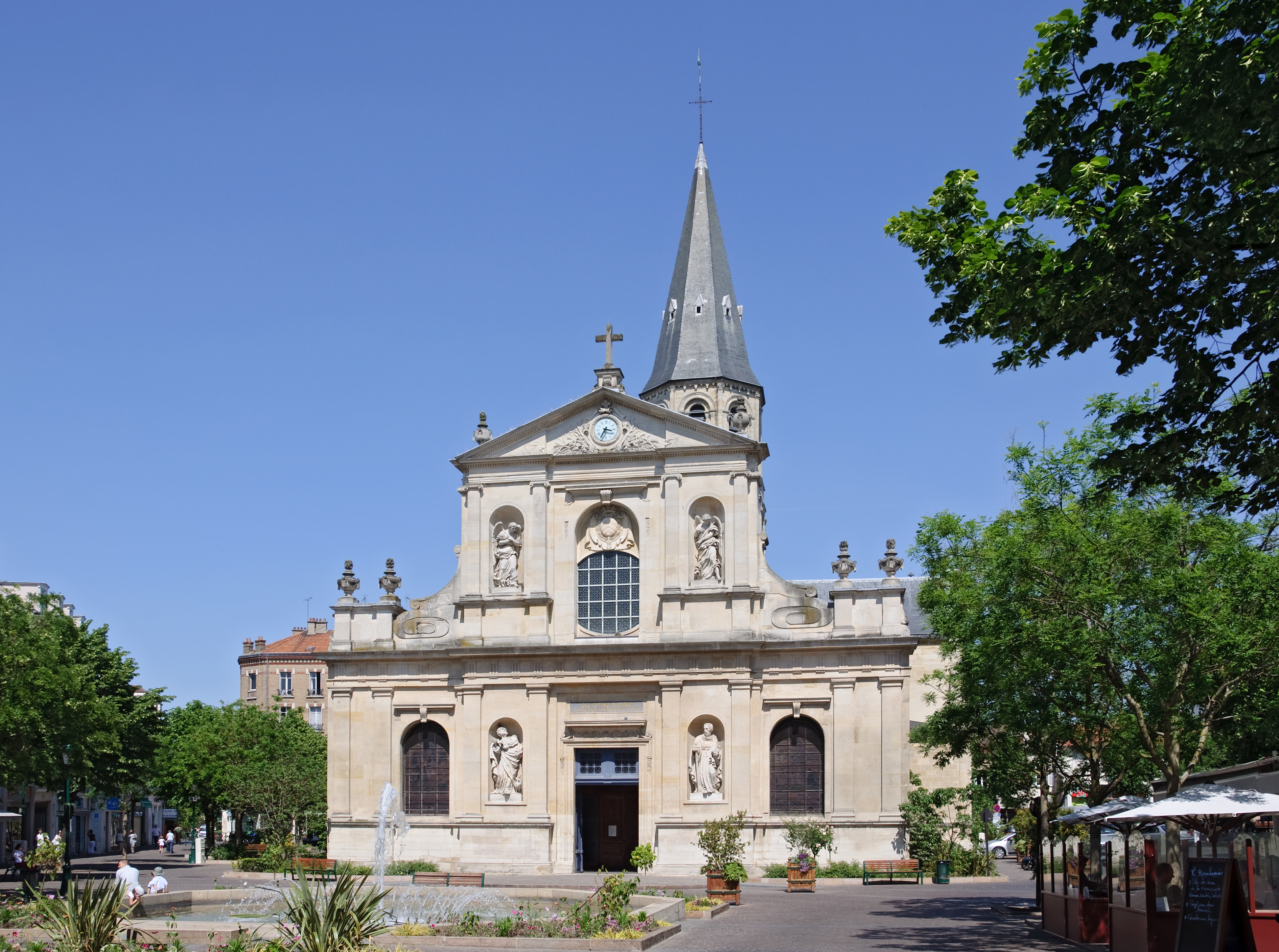 Saint-Pierre-Saint-Paul church (i.e. Saints Peter and Paul church) in Rueil-Malmaison (Hauts-de-Seine, France) It is indexed in the Base Mérimée, a database of architectural heritage maintained by the French Ministry of Culture, under the references PA00088138 and IA00064577 .